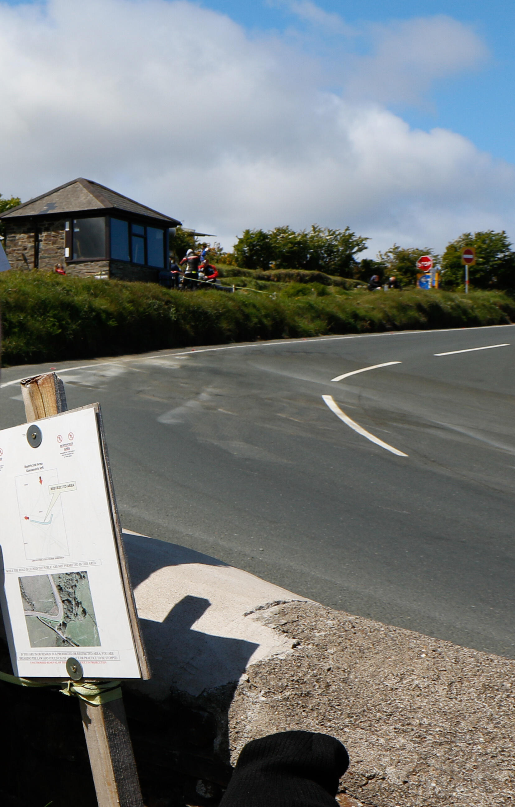 The Gooseneck, the start of the Mountain section proper on the Isle of man TT course